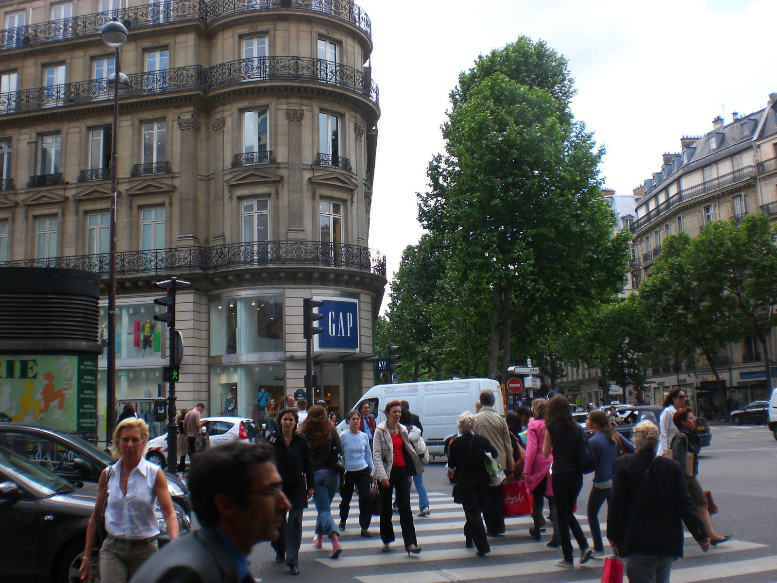 Boulevard Haussmann.